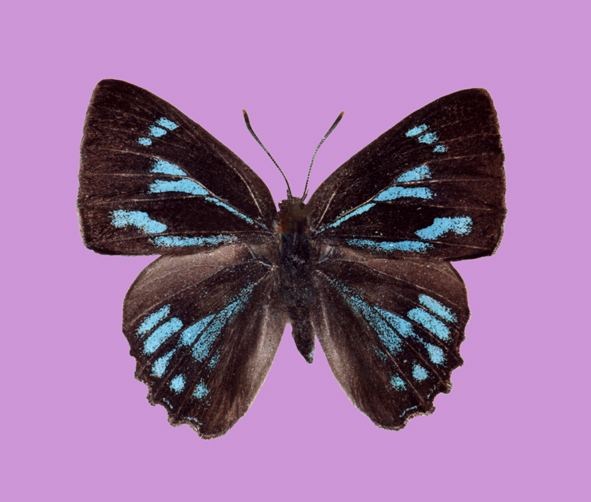 Deramas toshikoae, male, upperside